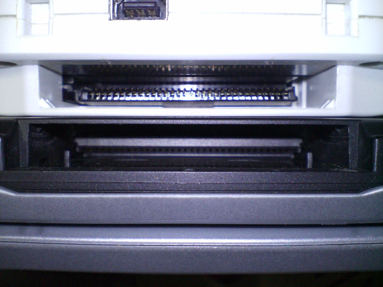 Slot compare between Game Boy Advance and Nintendo DS